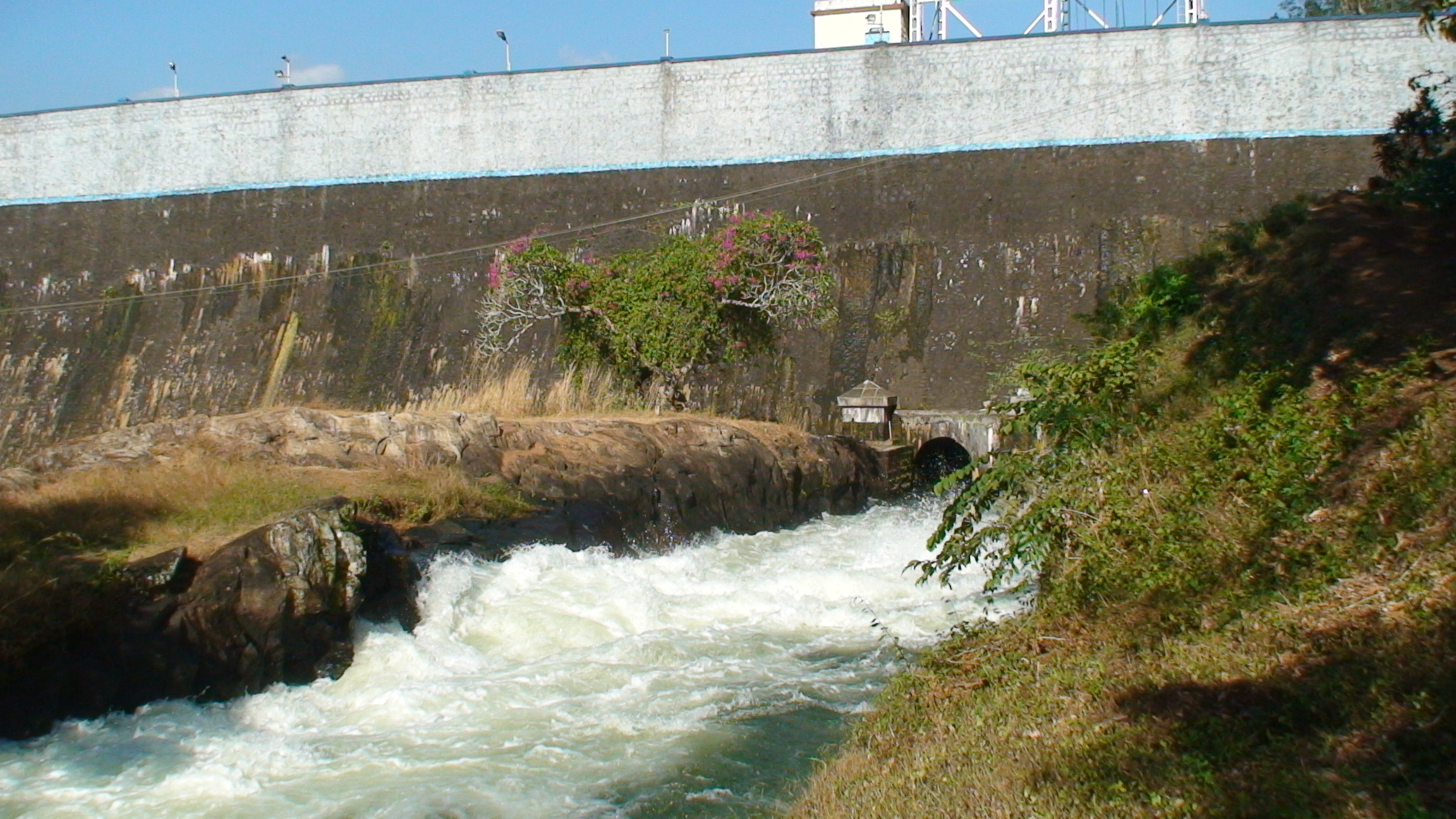 front side of pechiparai dam